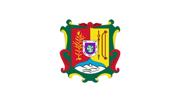 Flag of the State of Nayarit, Mexico.